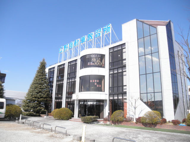 Hirono driving school